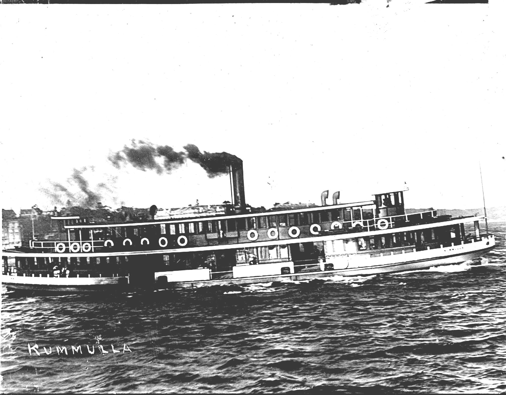 Ferry KUMMULLA 1903. File 078/078612 DESCRIPTION KUMMULA is probably on the Lavender Bay - Circular Quay service here. DATE 1920s RECORDSERIES Sydney Reference Collection CITATION Graeme Andrews 'Working Harbour' Collection: 78612. Dufty collection. PROVENANCE City of Sydney Archives NOTES S105211